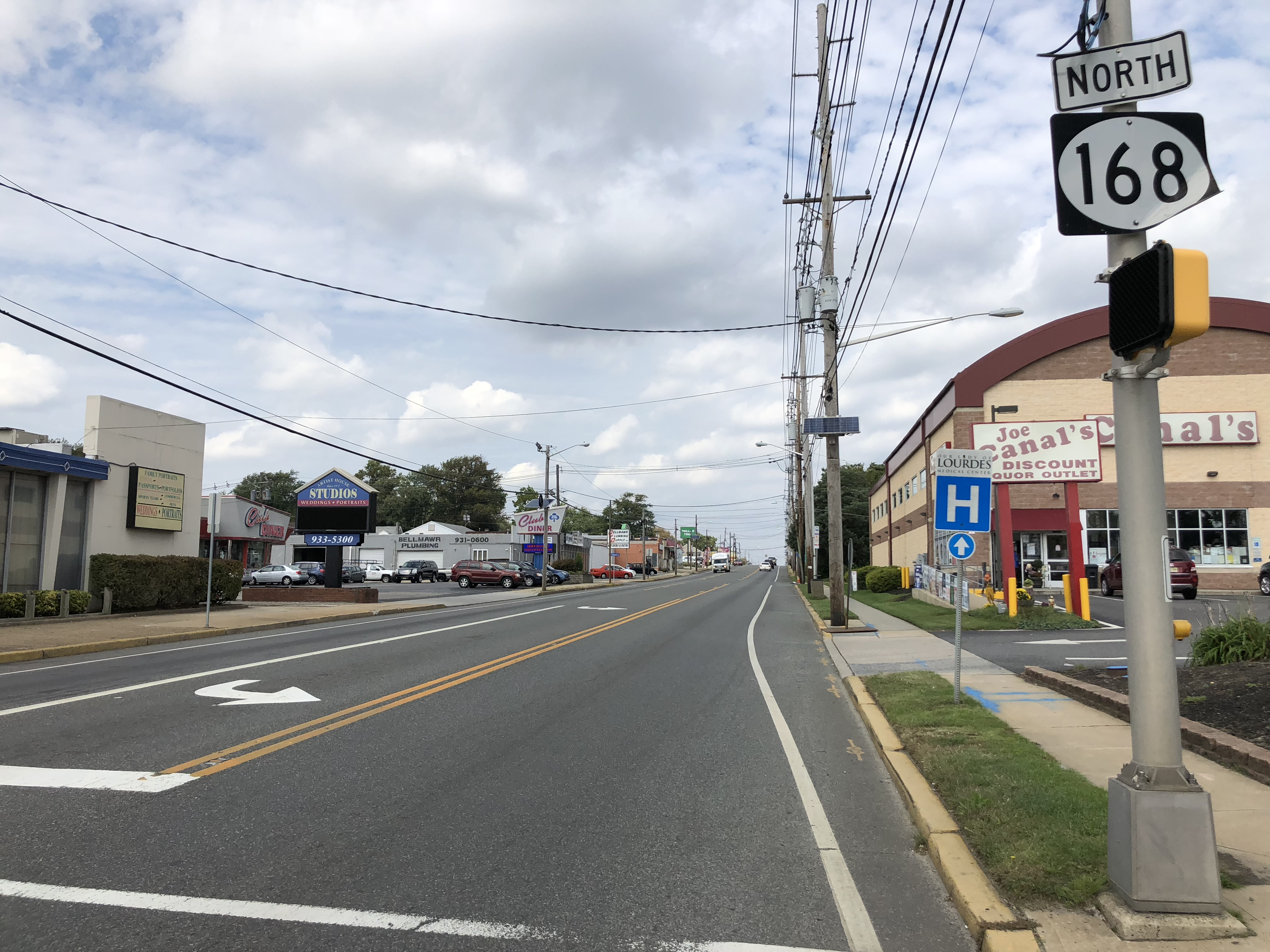 View north along New Jersey State Route 168 (Black Horse Pike) at Camden County Route 659 (Browning Road) in Bellmawr, Camden County, New Jersey